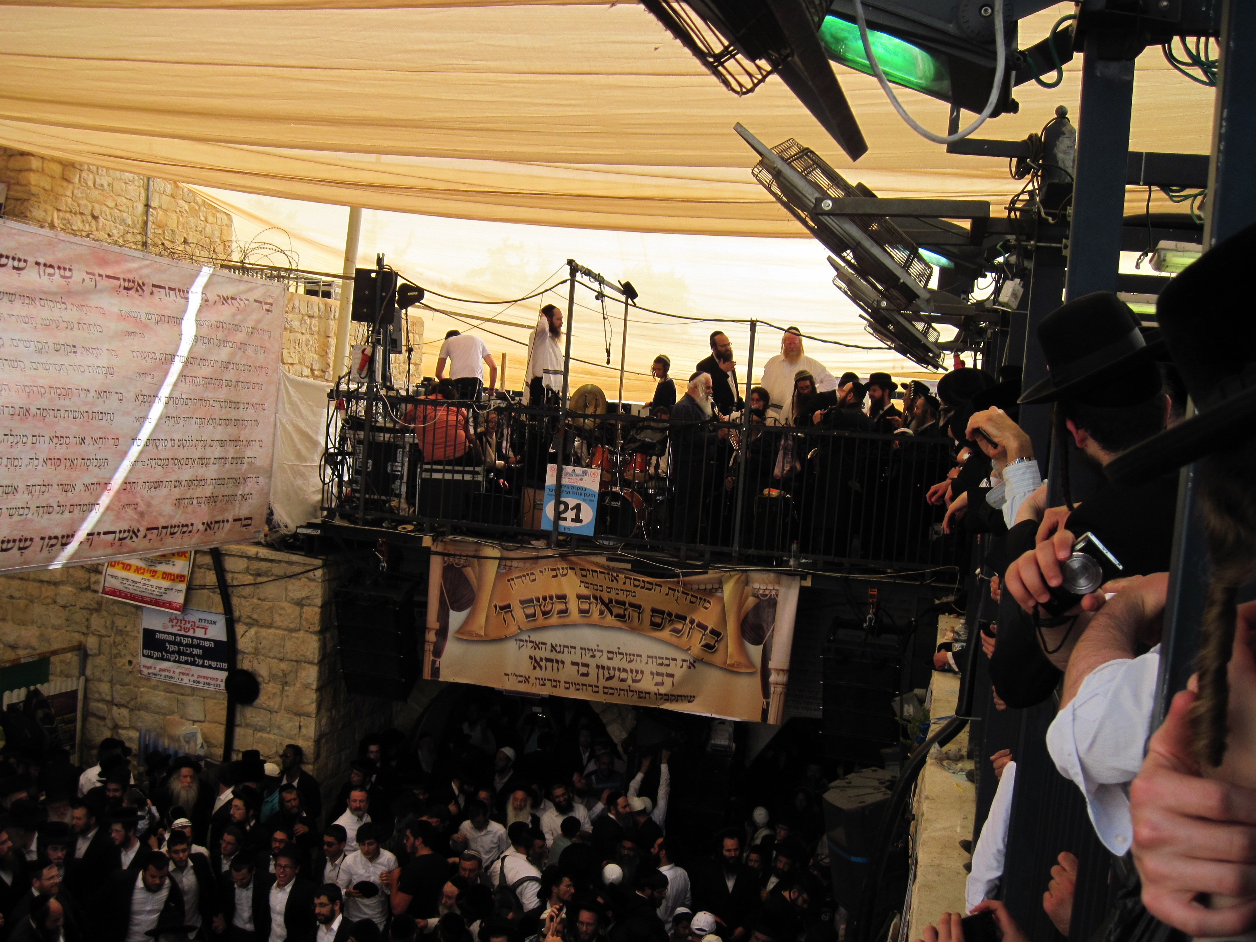 Musa Berlin and orchestra in Rashbi Grave, Lag Baomer 2016, Meron, Israel